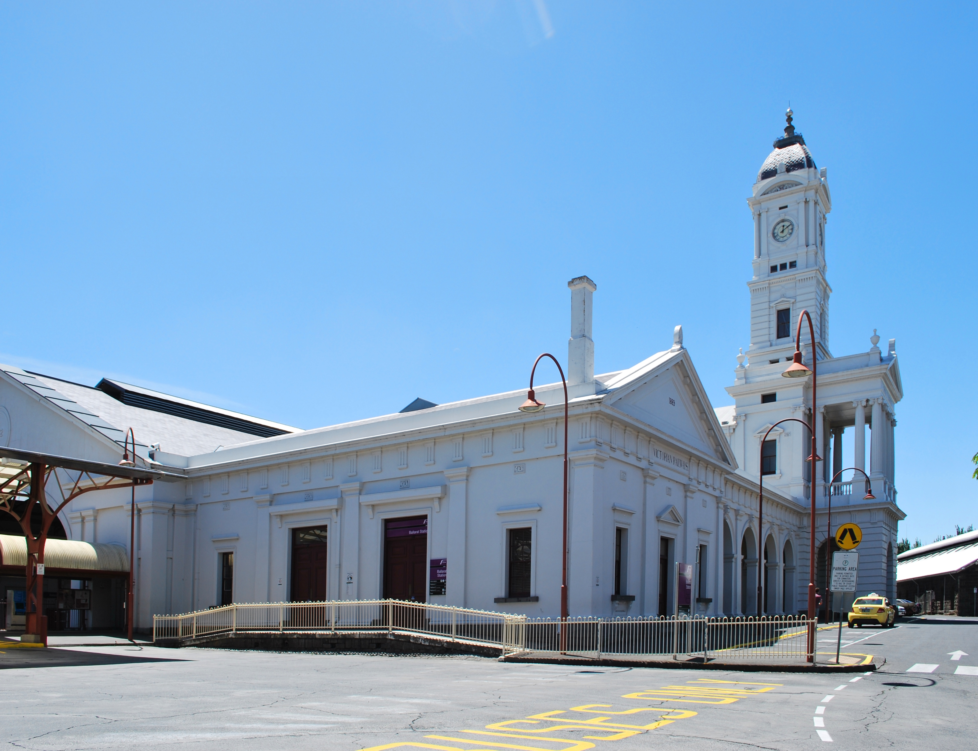 Ballarat railway station at Ballarat, Australia